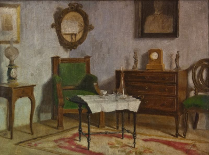 Interior avec Gray walls